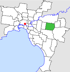 Location of the City of Nunawading within Melbourne.